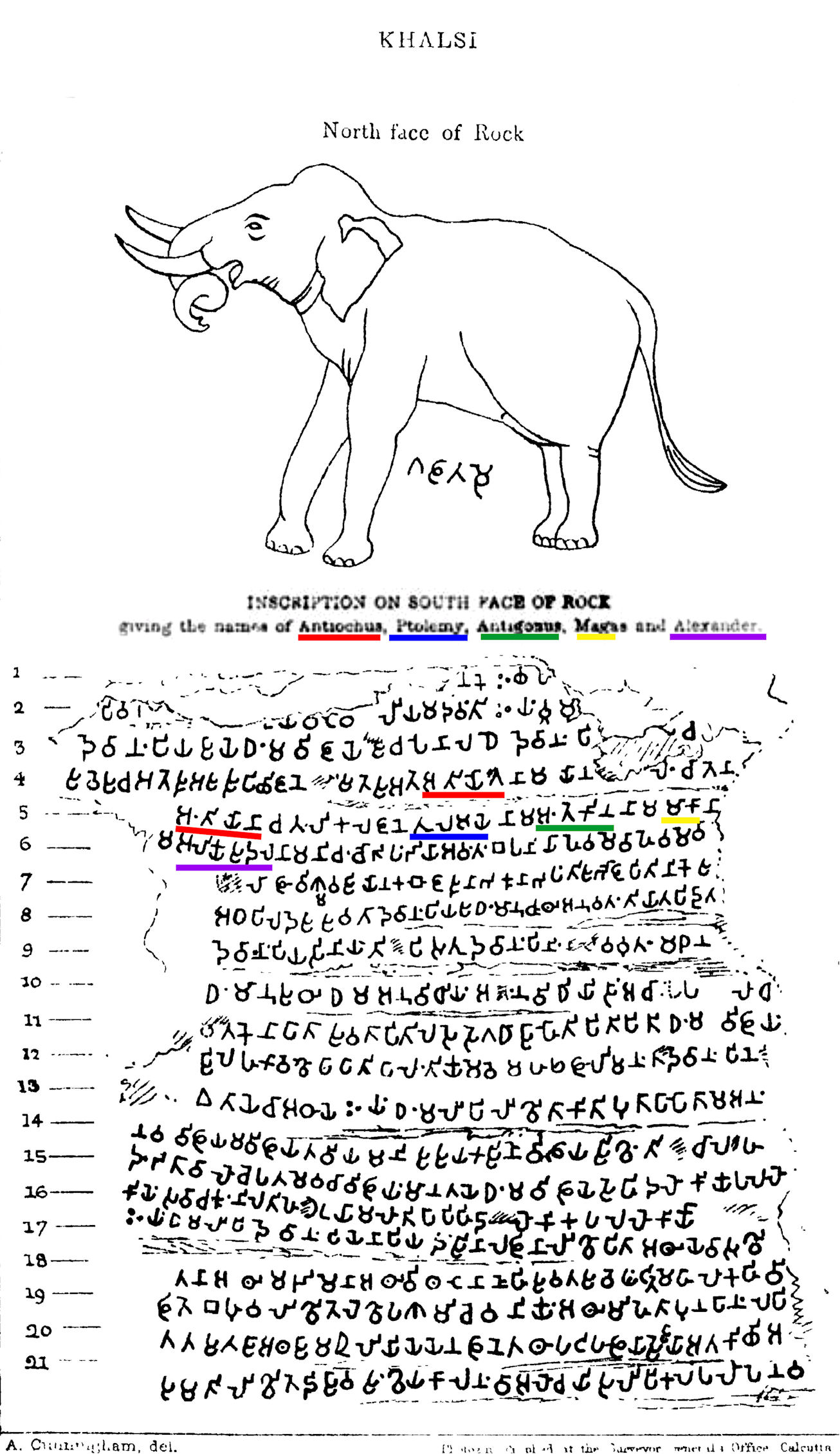 Khalsi rock edict of Ashoka with names of the Greek kings